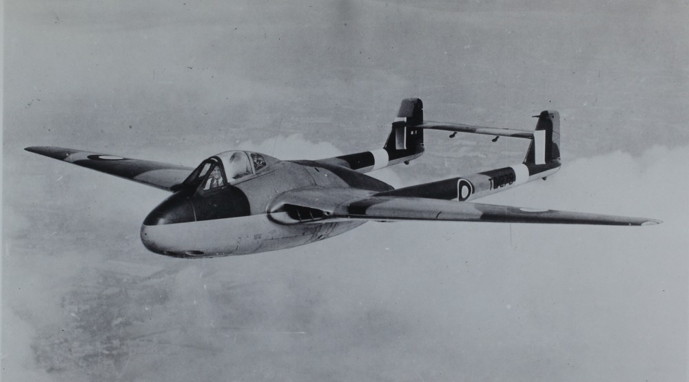 PictionID:40994329 - Title:DeHavilland Vampire - Catalog:15_002663 - Filename:15_002663.TIF - Image from the Charles Daniels Photo Collection album "British Aircraft."PLEASE TAG this image with any information you know about it, so that we can permanently store this data with the original image file in our Digital Asset Management System.SOURCE INSTITUTION: San Diego Air and Space Museum Archive